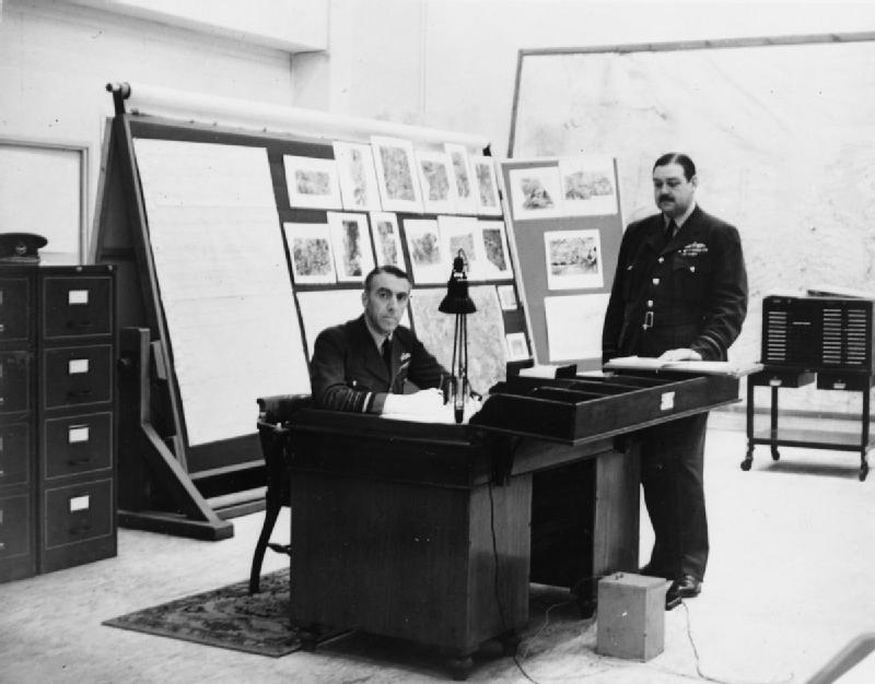 Royal Air Force Bomber Command, 1939-1941. Air Marshal Sir Richard Peirse, Air Officer Commanding in Chief, RAF Bomber Command sitting at his desk in the Operations Room at Bomber Command Headquarters, near High Wycombe, Buckinghamshire. Alongside him stands his Senior Air Staff Officer, Air Vice-Marshal R Saundby.